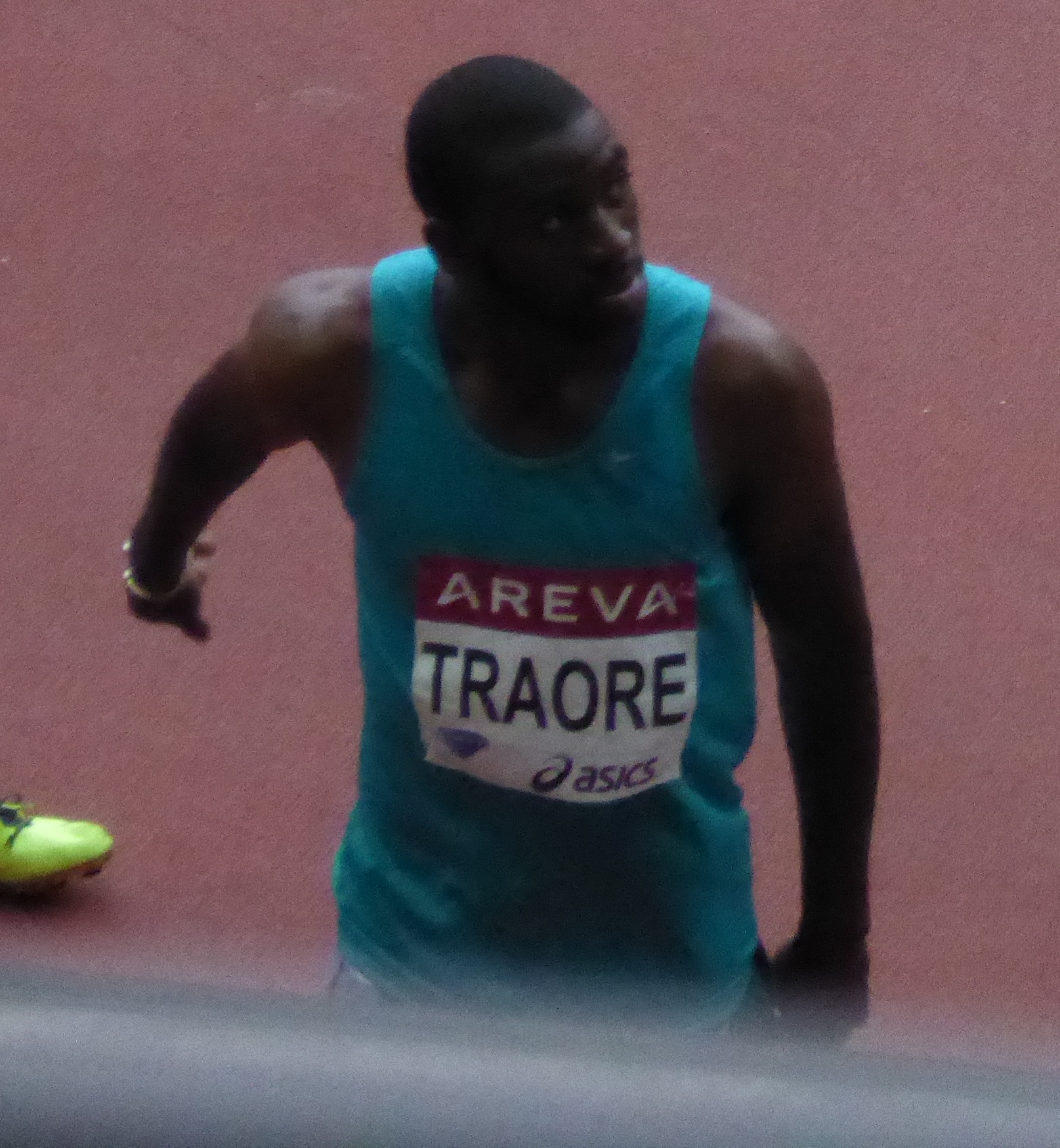 2015 Meeting Areva, Stade de France, Paris.